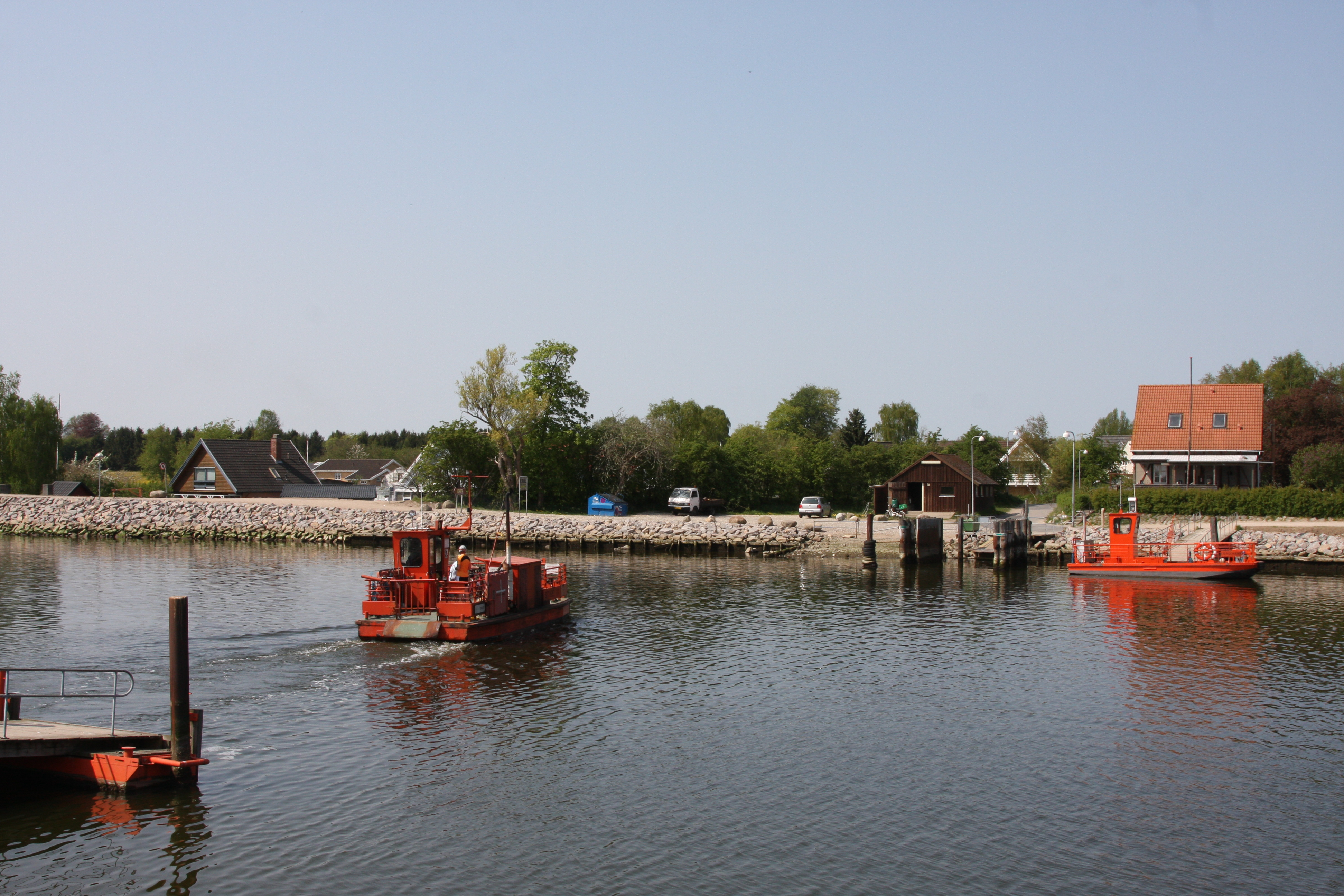 Stige Færge, the ferry which carries pedestrians and bicyclists across Odense Kanal